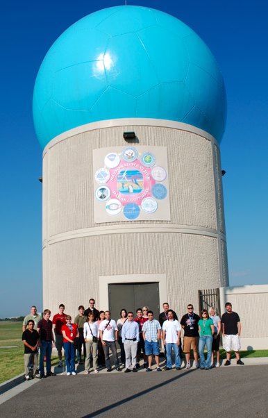 NSSL National Weather Radar Testbed Phased Array Radar